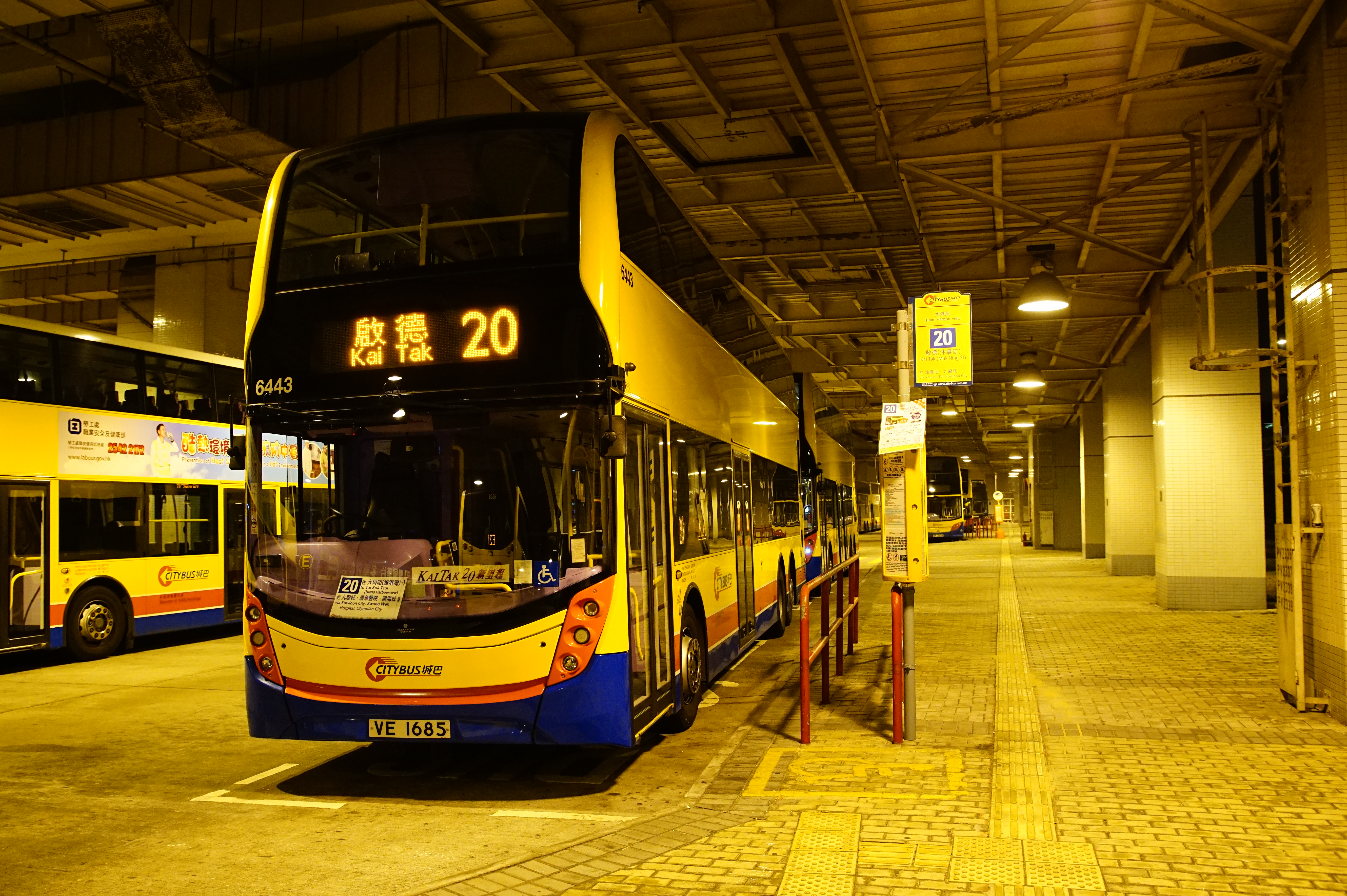 Tai Kok Tsui (Island Harbourview) Public Transport Interchange